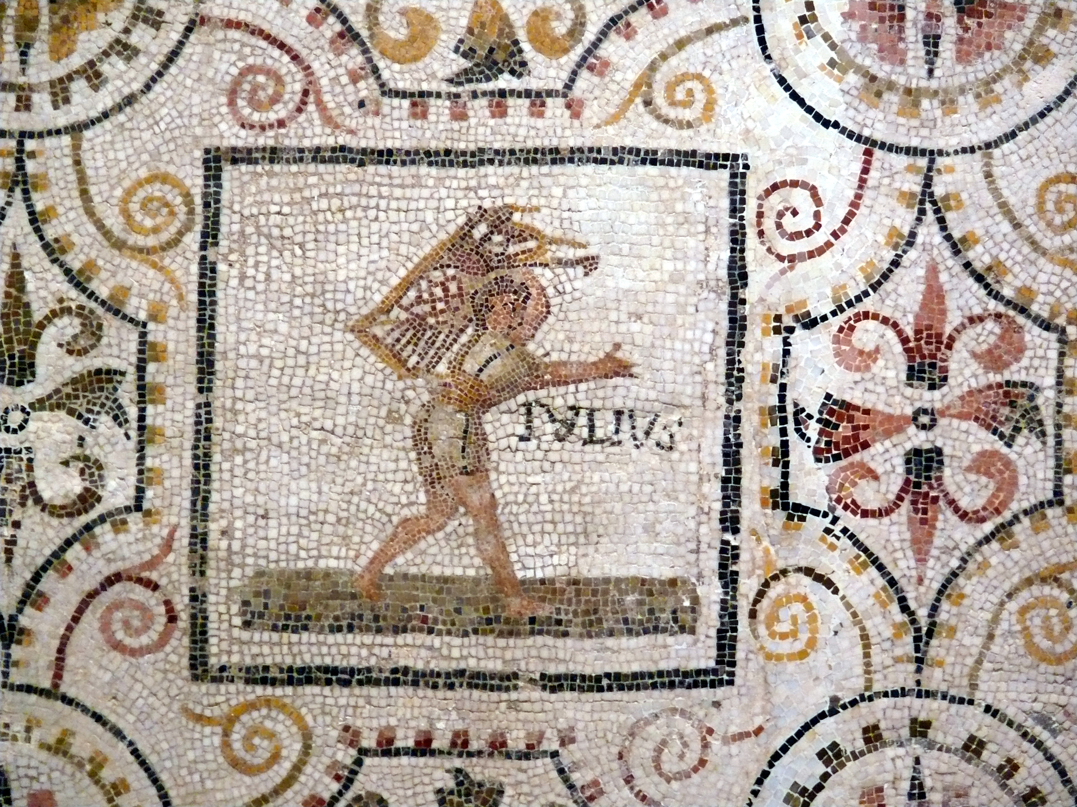 July, fragment of a mosaic with the months of the year, starting with the Roman first month March. First half third century El Jem Archeological Museum of Sousse